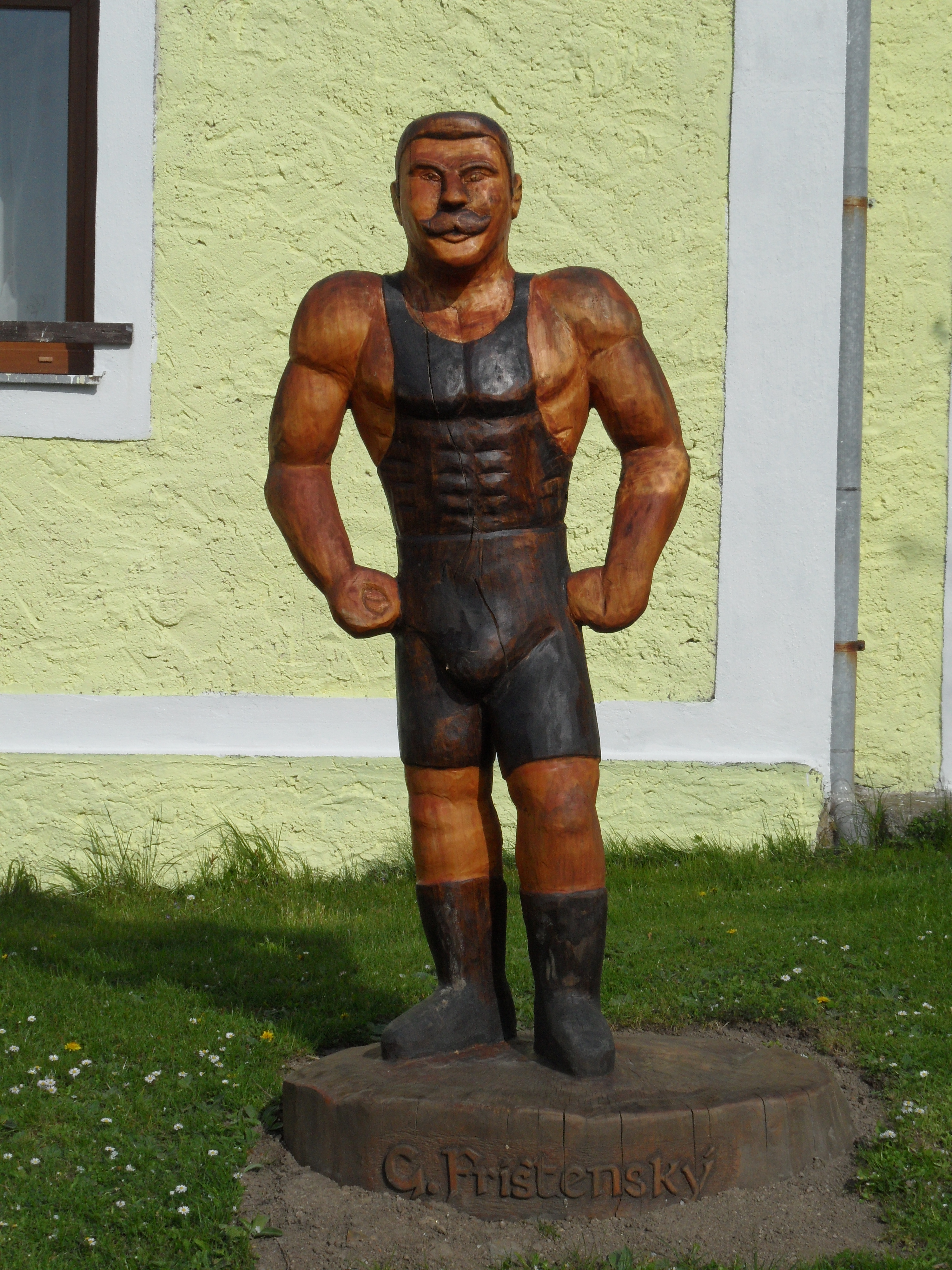 Kamhajek D. New Wooden Statue of Gustav Frištenský (In Front of No. 14), Kolín District, the Czech Republic.